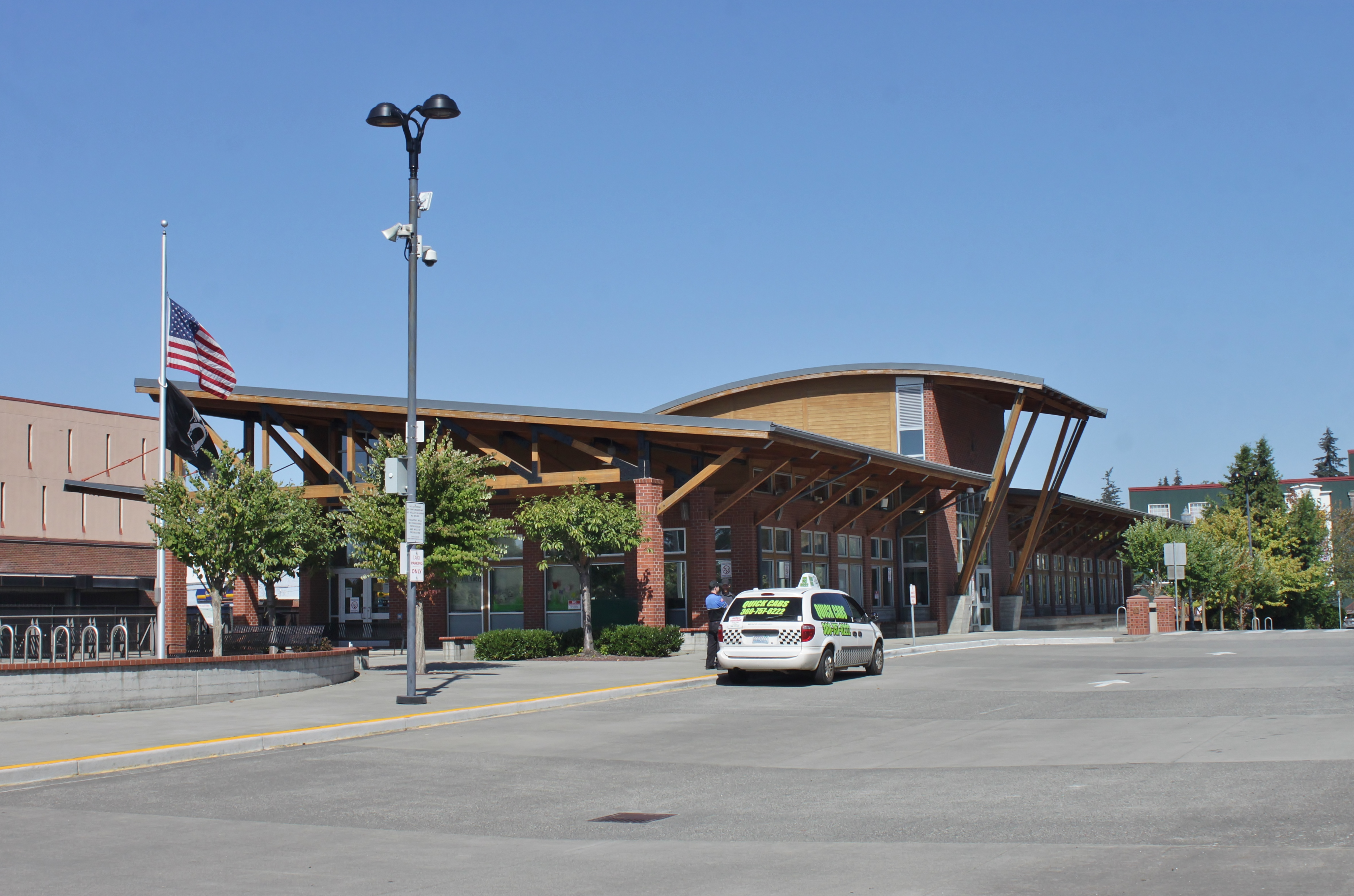 The main building of the Skagit Transportation Center, a train station and bus transit center in Mount Vernon, Washington.